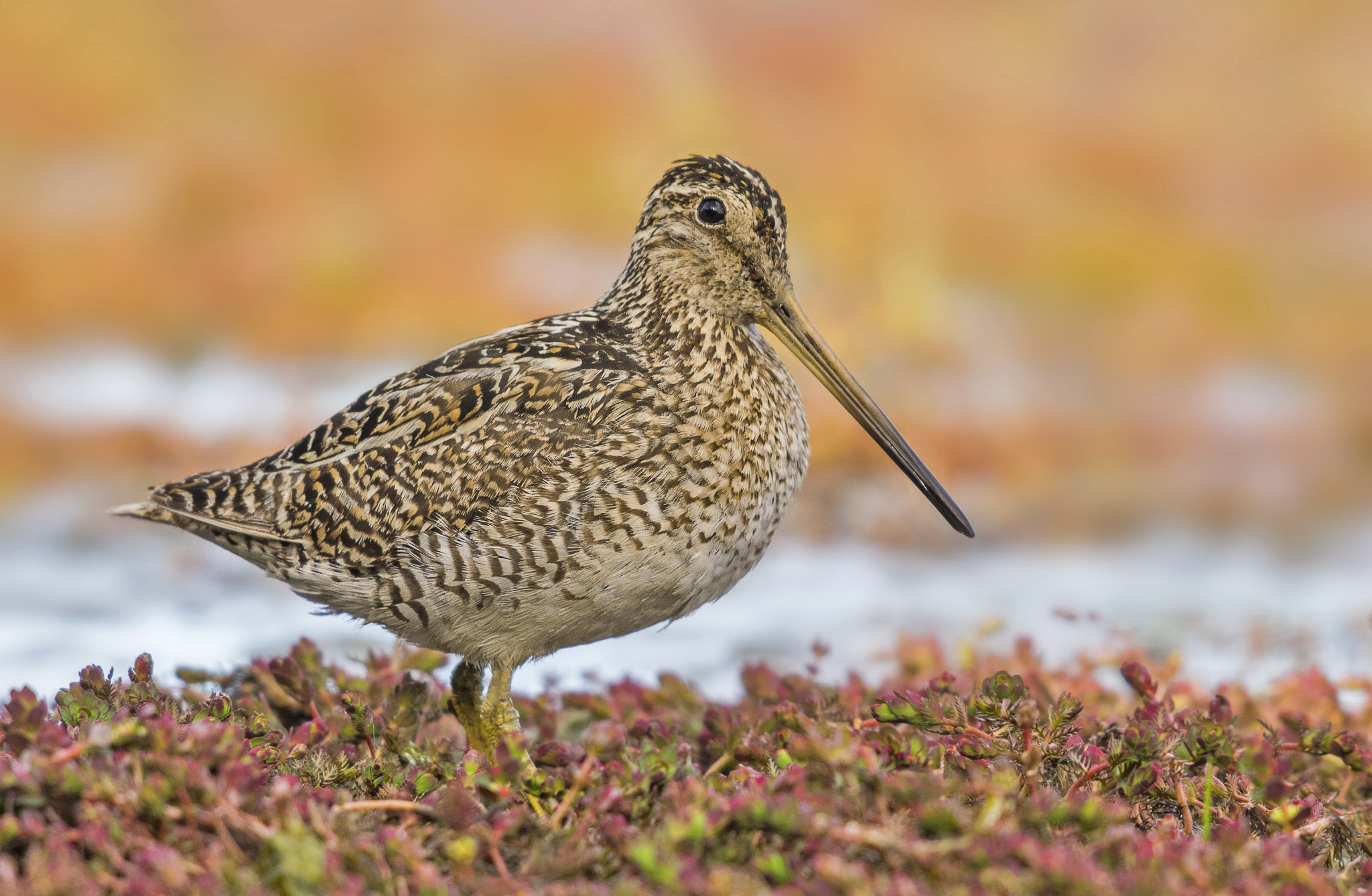 Fuegian Snipe Gallinago stricklandii, Punta Arenas, southern Chile 500px provided description: Snipe in punta arenas [#birds ,#bird ,#chile ,#ave ,#snipe ,#becasina]